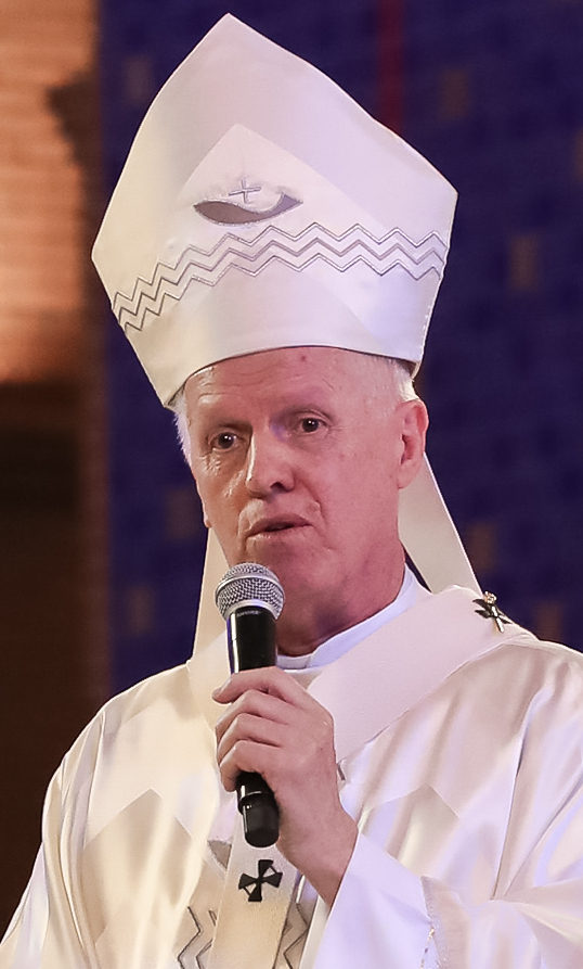 (Aparecida - SP, 12/10/2019) Missa no Santuário Nacional de Nossa Senhora de Aparecida. Foto: Marcos Corrêa/PR